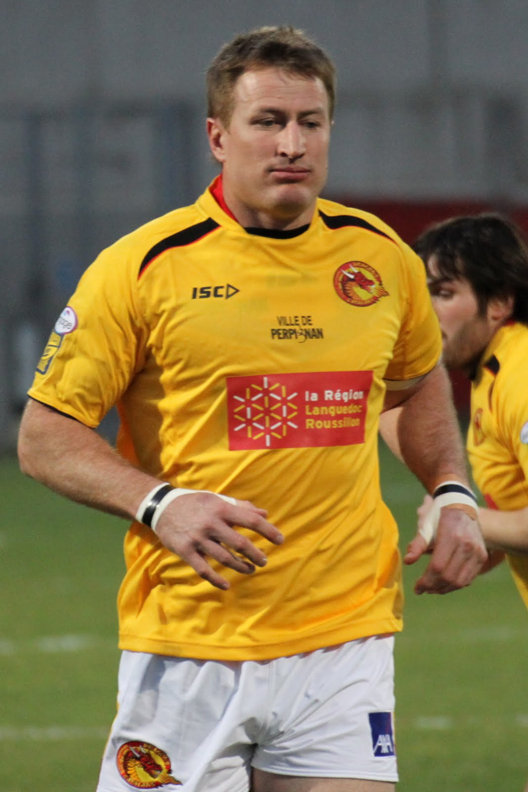 Steve Menzies, Australian rugby league player